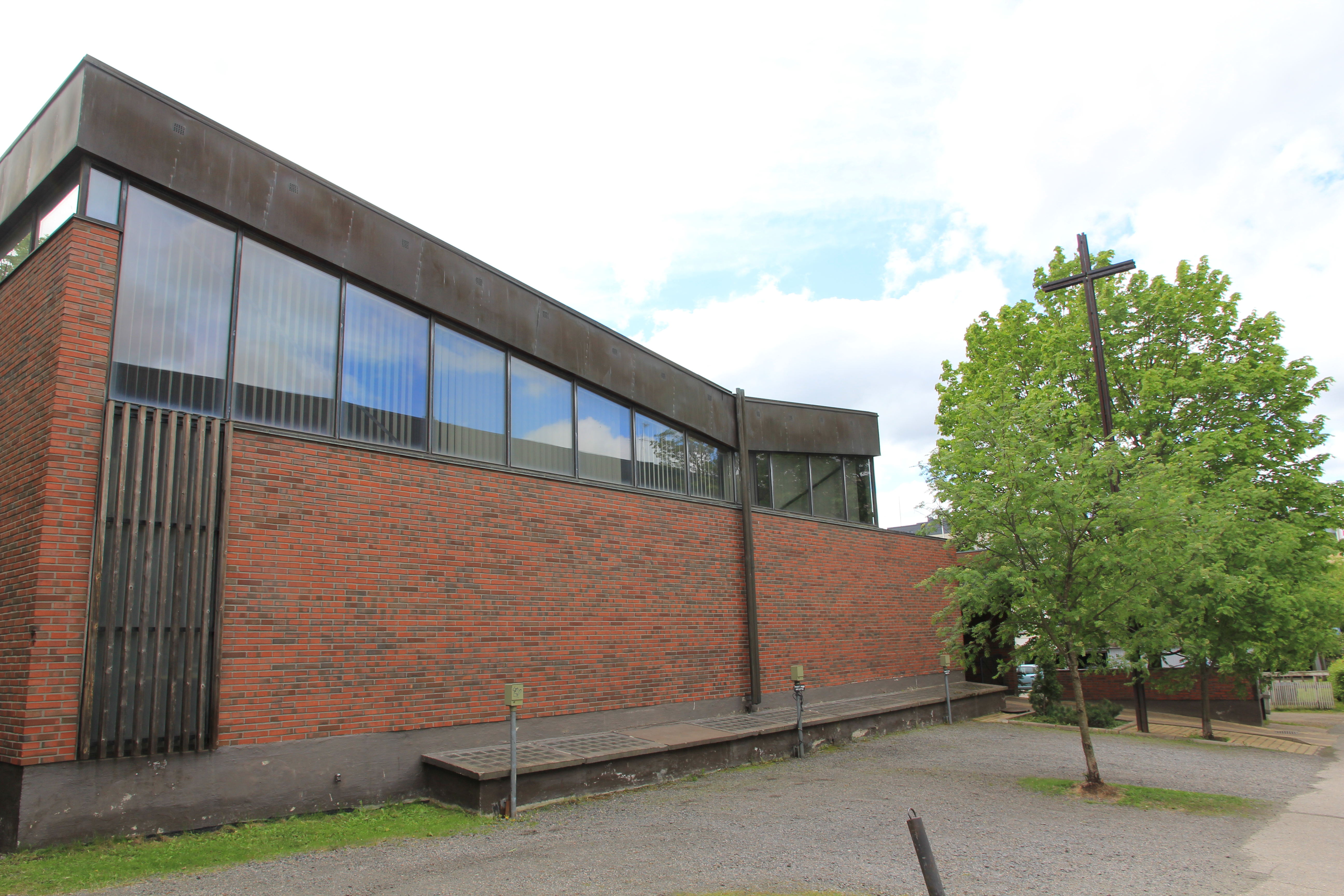 Jyväskylä adventist church.